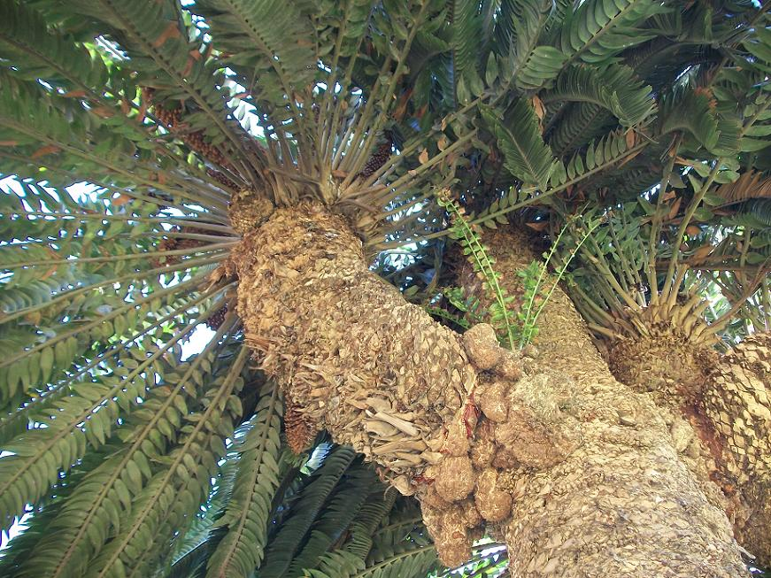 A sucker with developing roots on the large original stem of Encephalartos woodii growing at the Durban Botanic Gardens, South Africa